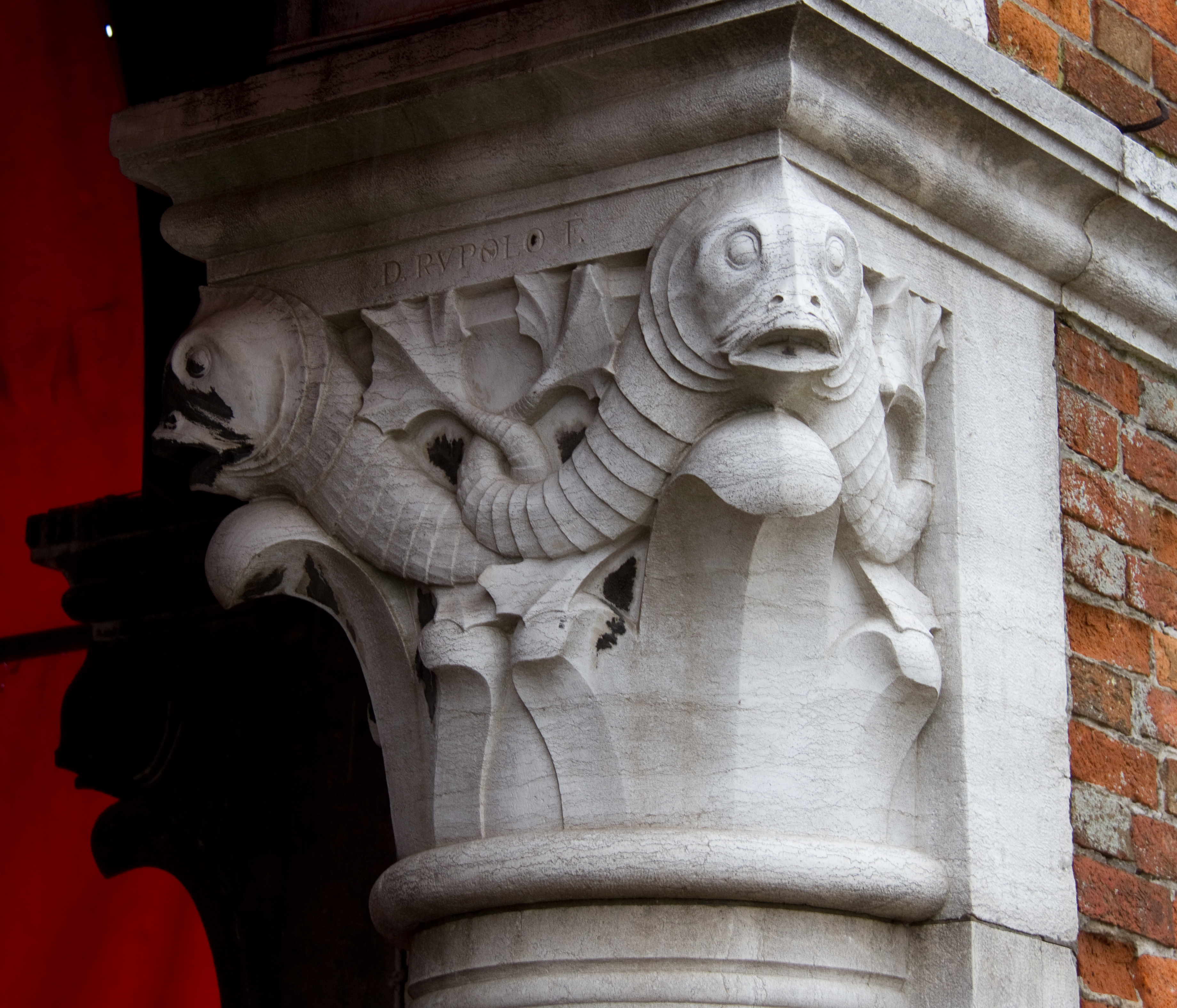 Fish Market Decoration